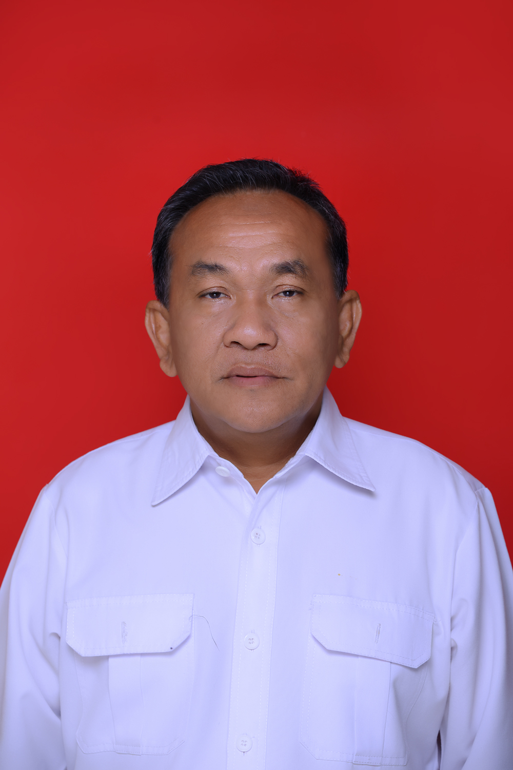 Calon Bupati Tapanuli Tengah